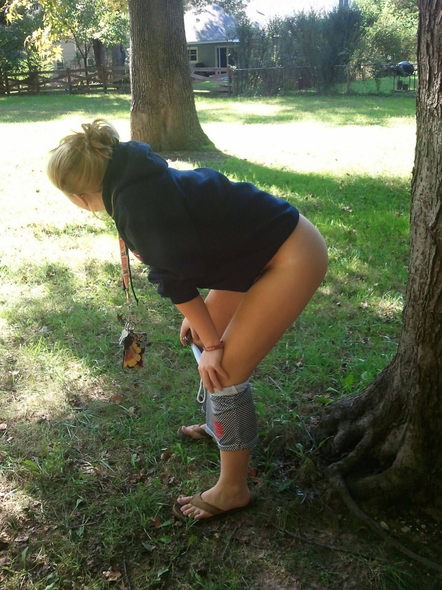 Woman peeing in upright position